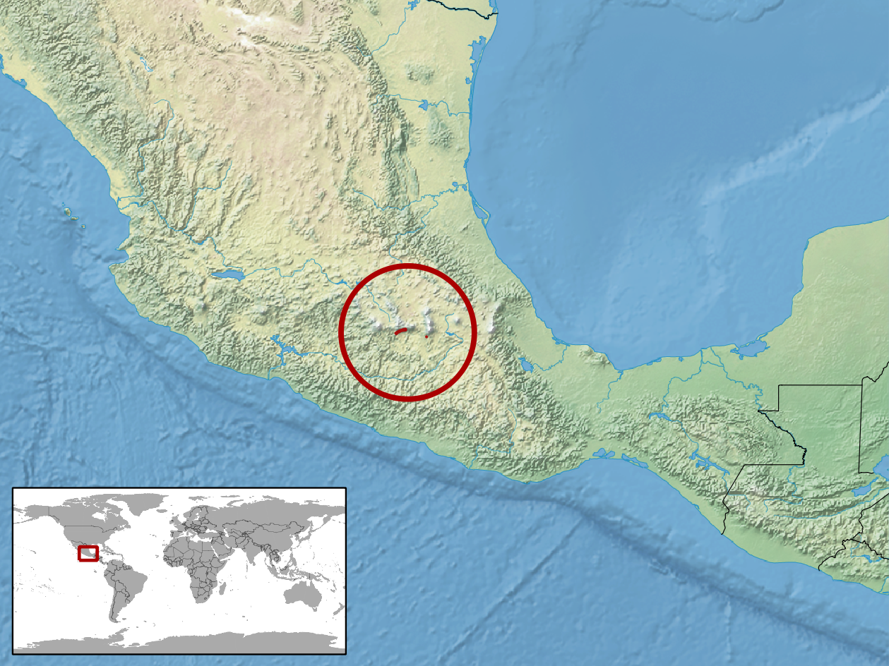 geographic distribution of Barisia herrerae (Native: Mexico)